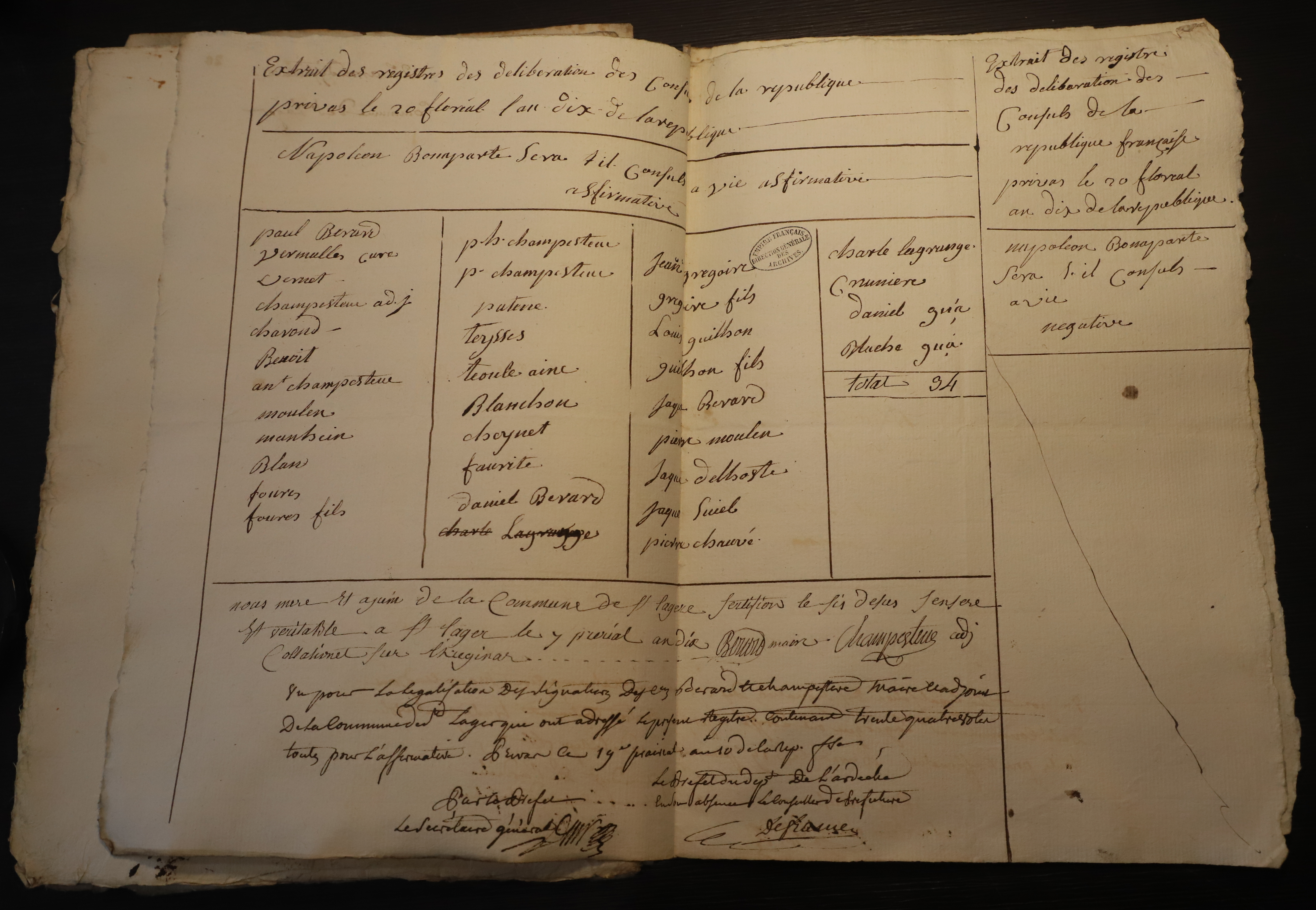 This picture is only the first page of the registry in that commune. There are 34 affirmative votes and no negative one. This document can be seen in the Archives nationales in Pierrefitte sur Seine.